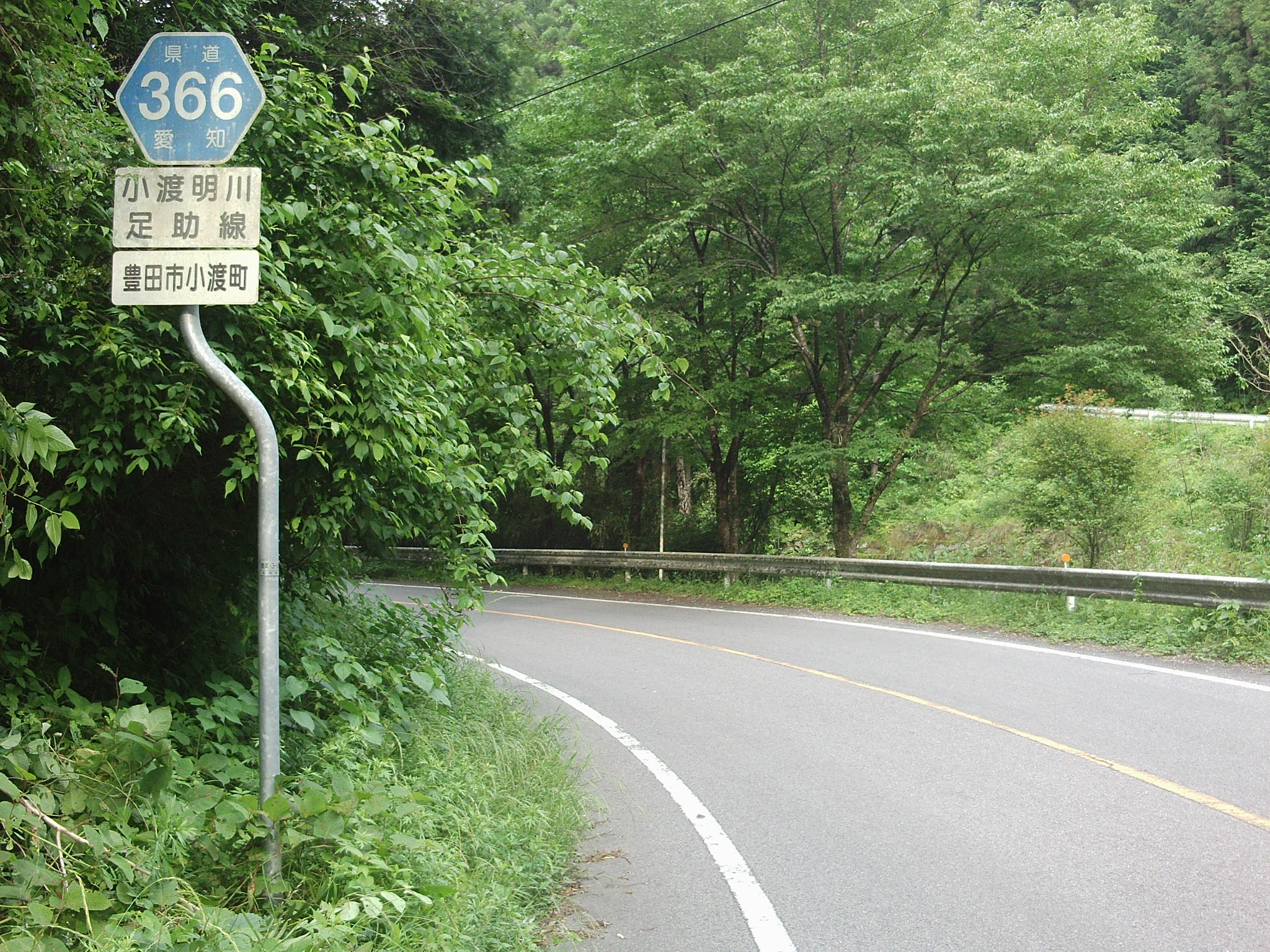 The Aichi Prefectural Road Route 366 in Odocho, Toyota City